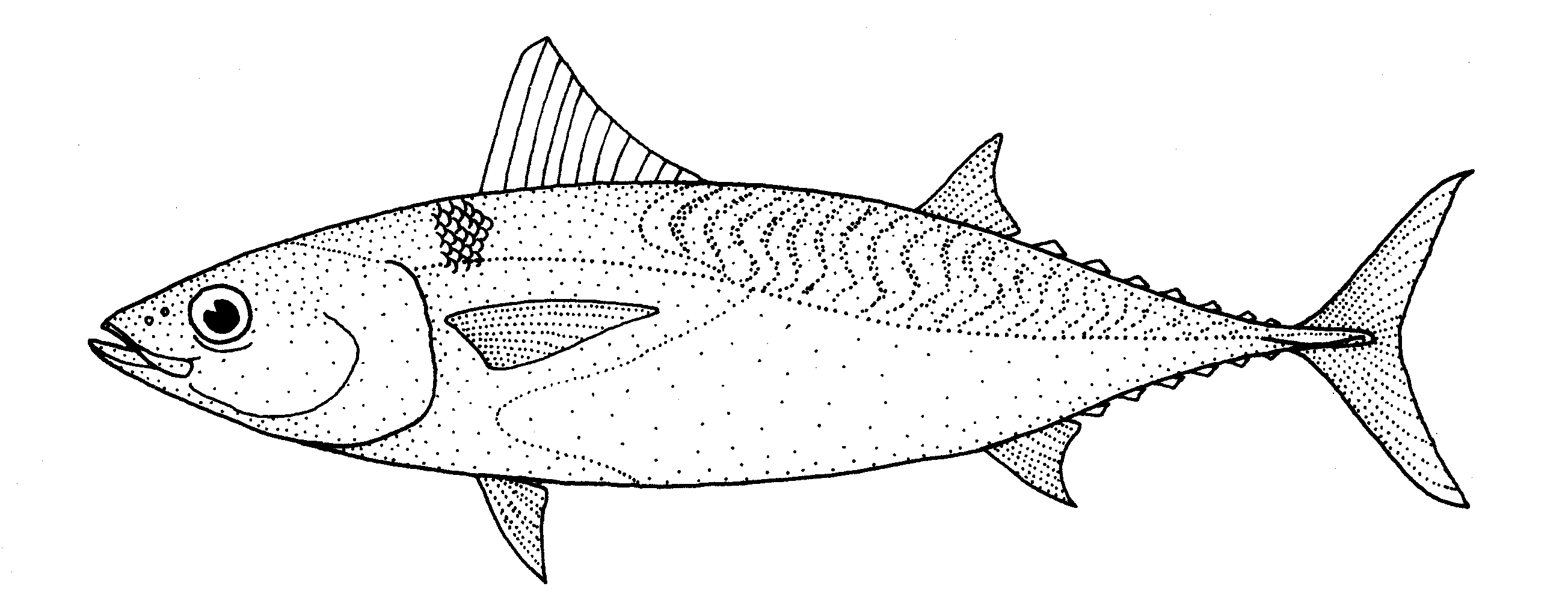 Auxis thazard thazard (frigate tuna)